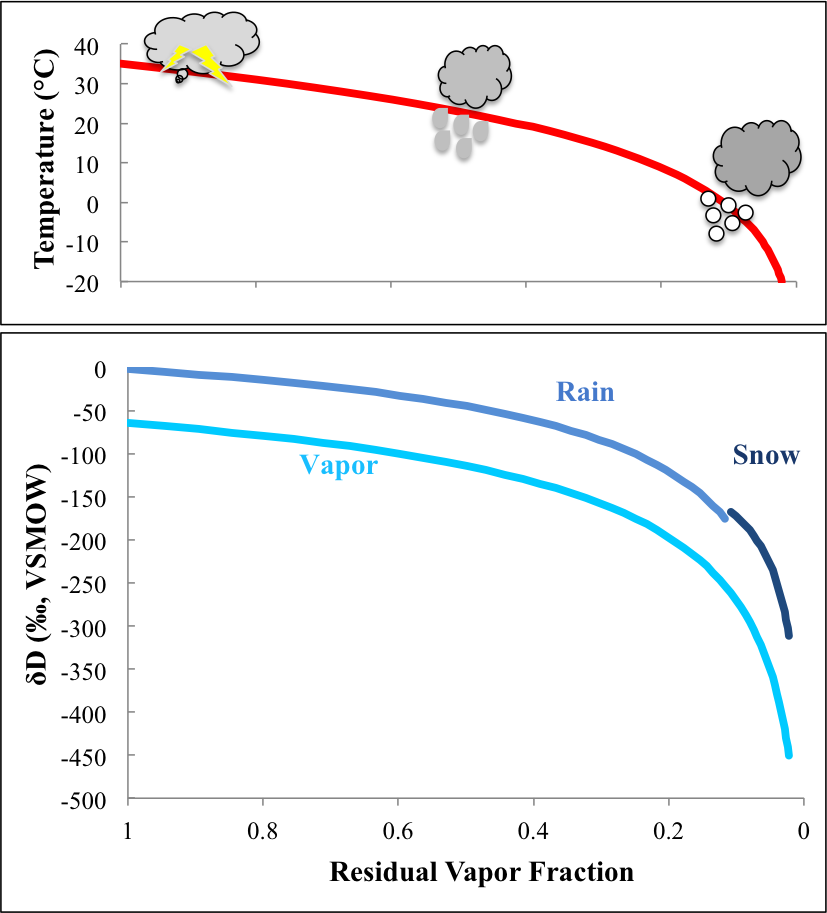 The process of Rayleigh distillation in precipitation. As air temperature drops from the tropics, water vapor is progressively removed from the air mass by condensation, which leaves the residual vapor depleted in heavy isotopes.